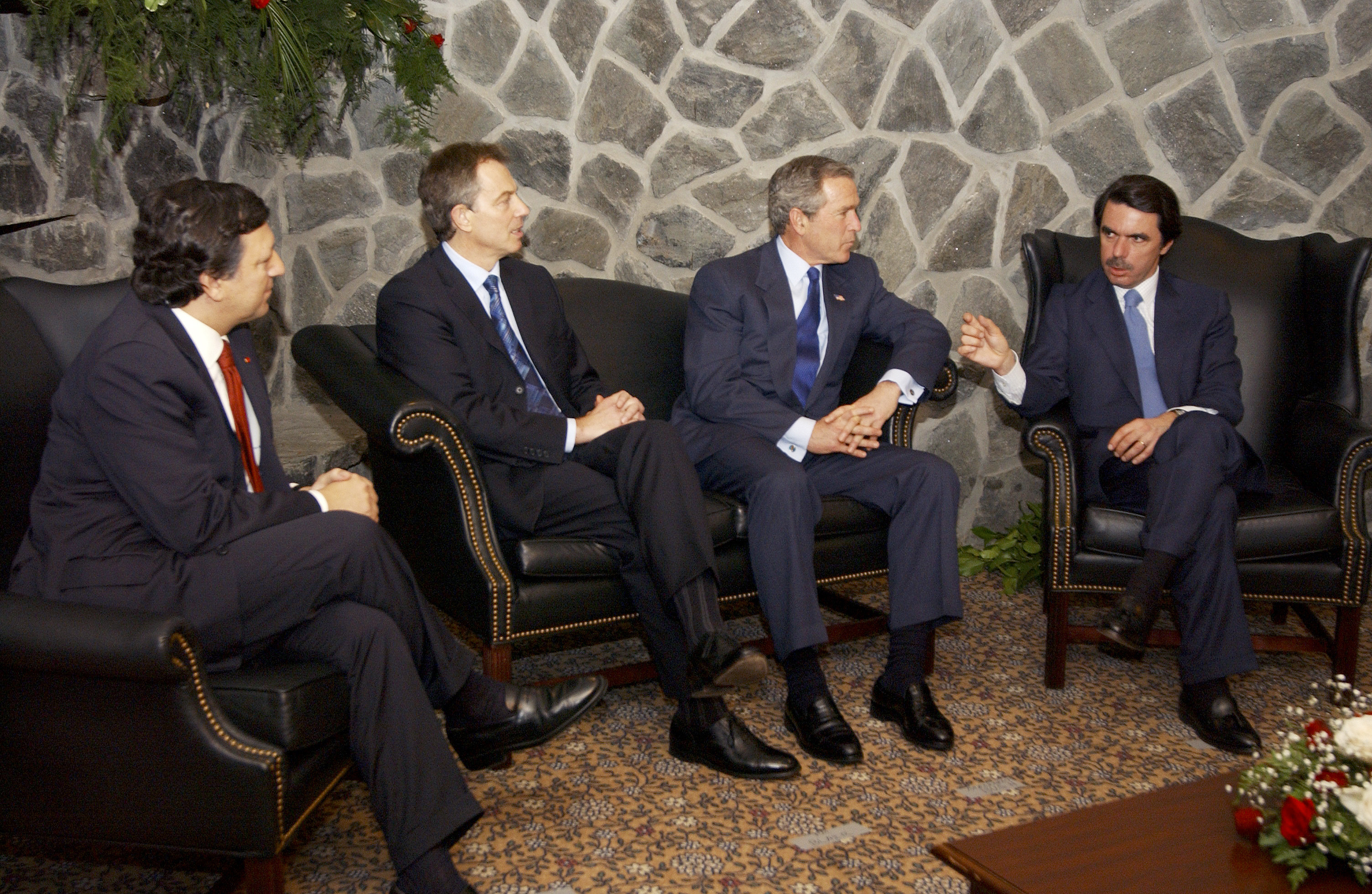 Description: President George W. Bush visits the Azores for a one-day emergency summit with Portuguese Prime Minister Jose Manuel Durao Barroso, British Prime Minister Tony Blair, and Spanish Prime Minister Jose Maria Aznar. Longer description: 030316-F-1698N-007 Lajes Field, Azores (Mar. 16, 2003) -- President George W. Bush visits the Azores for a one-day emergency summit with Portuguese Prime Minister Jose Manuel Durao Barroso (left), British Prime Minister Tony Blair, and Spanish Prime Minister Jose Maria Aznar (right), to discuss the possibilities of war with Iraq. U.S. Air Force photo courtesy of Staff Sgt. Michelle Michaud. (RELEASED)